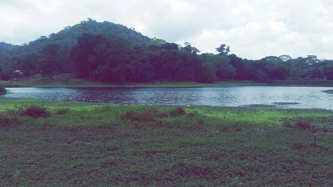 Açude da Comissão com Morro do Cruzeiro ao fundo.